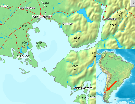 Map of Reloncavi Estuary